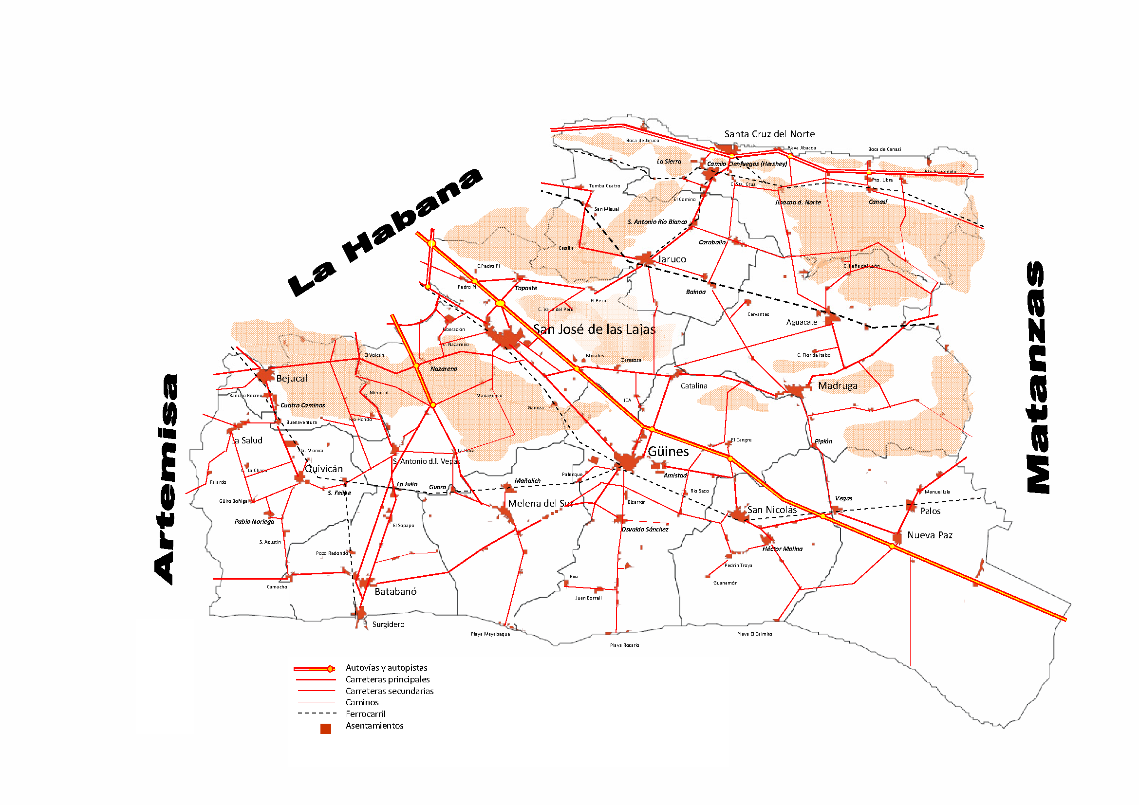 Road Map of Mayabeque province Cuba